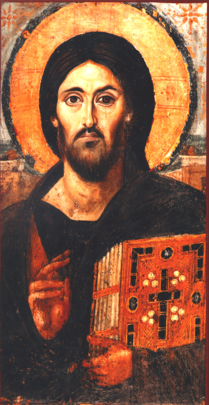 A 6th century icon of Jesus at St. Katherine's Monastery on Mt. Sinai. The image depicts Jesus Christ with two different looks on His face: One is of a loving man, and the other is a fearful judge. From [1] Category:Artistic portrayals of Jesus